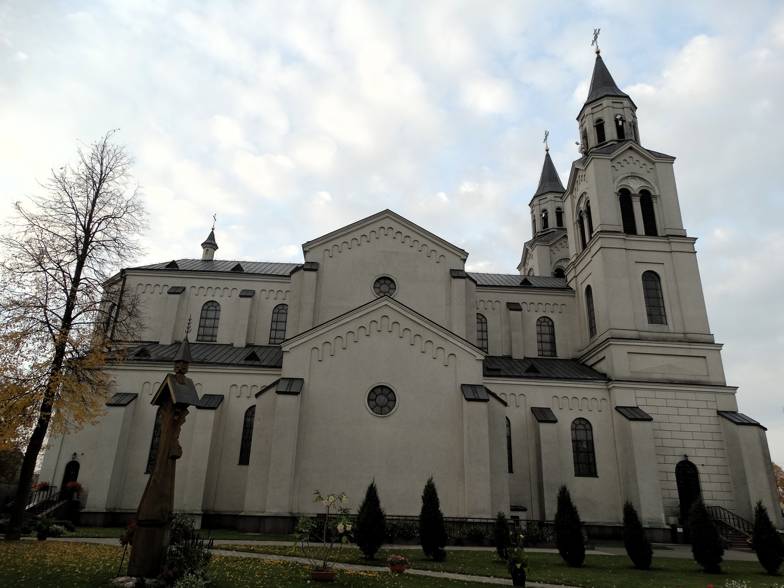 Roman Catholic Church of Saint Mary's Visitation in Vilkaviškis, Lithuania